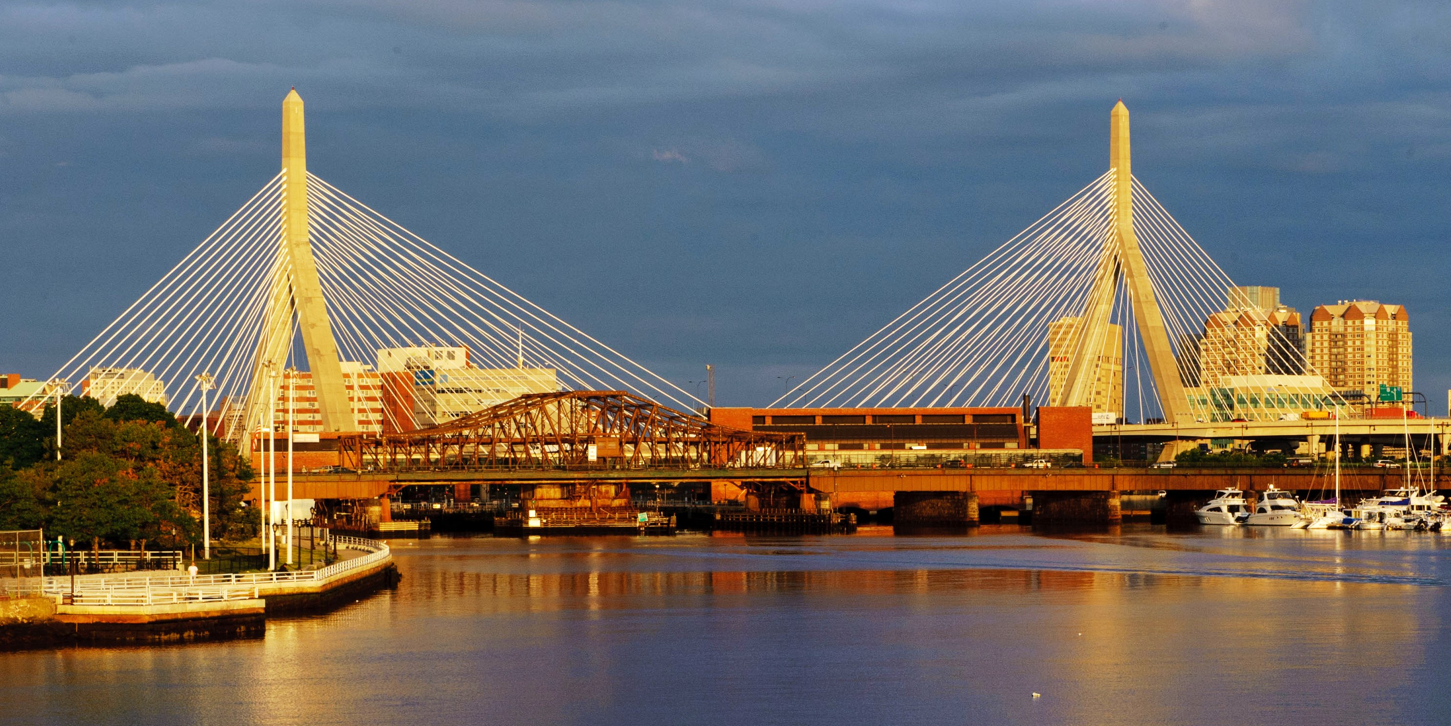 Photo by Eric Vance, U.S. EPA